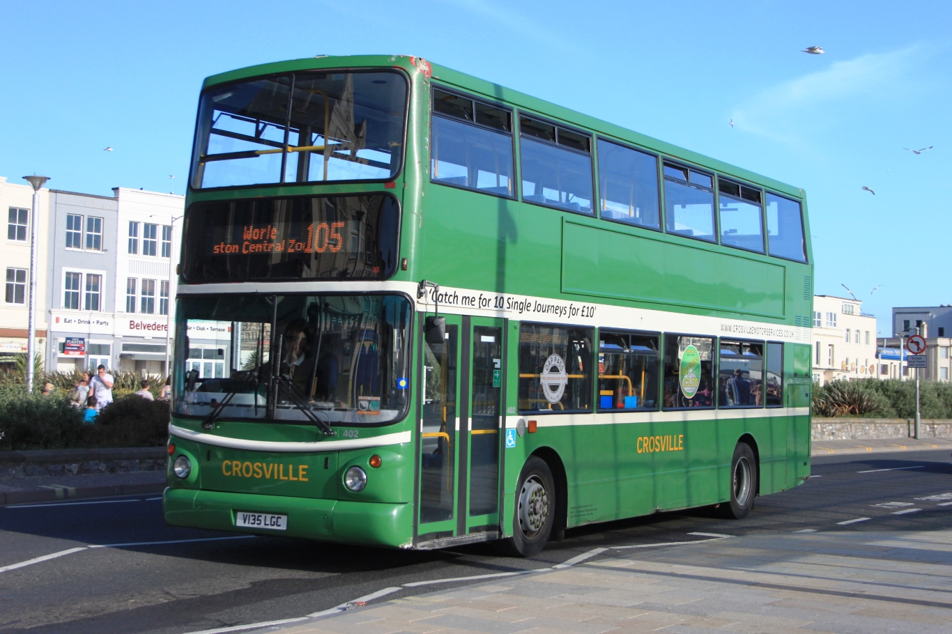 Gulls hunt for end-of-day leftovers on Weston-super-Mare sea front as Croville Motor Services' 402 (a Volvo-powered ALX400 registered V135LGC) heads across town to Worle.